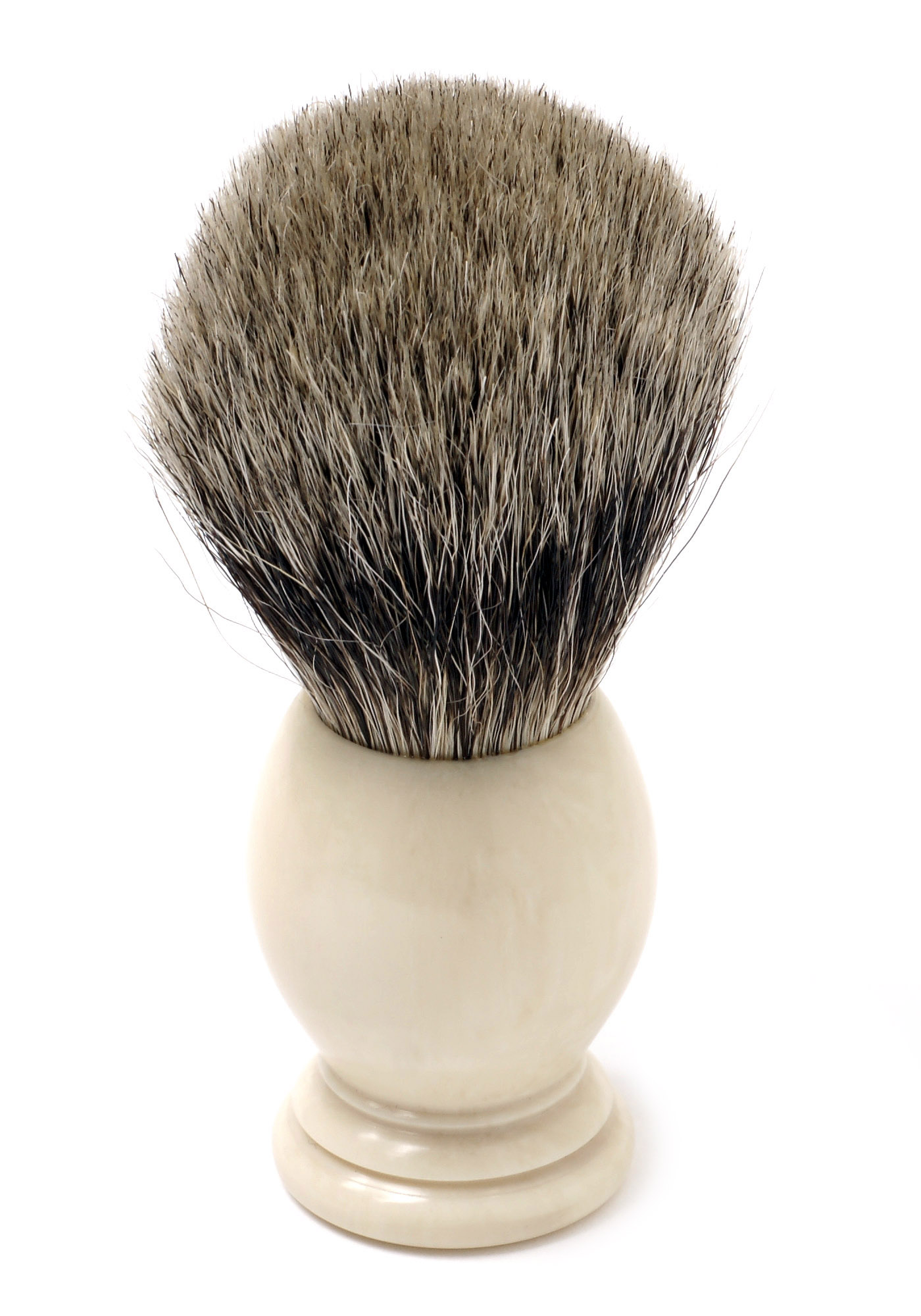 A shaving brush, for use with traditional shaving soap to build foam and lather, then to apply directly to face.